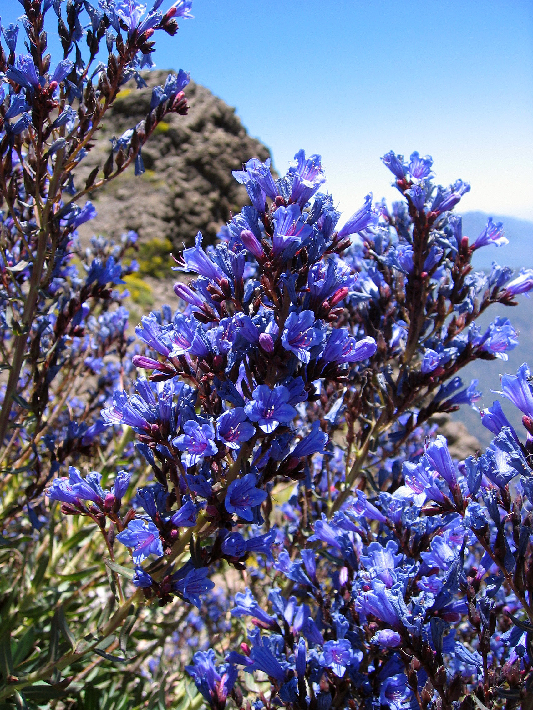 Echium gentianoides, Near Fuente Nueva, La Palma, Spain